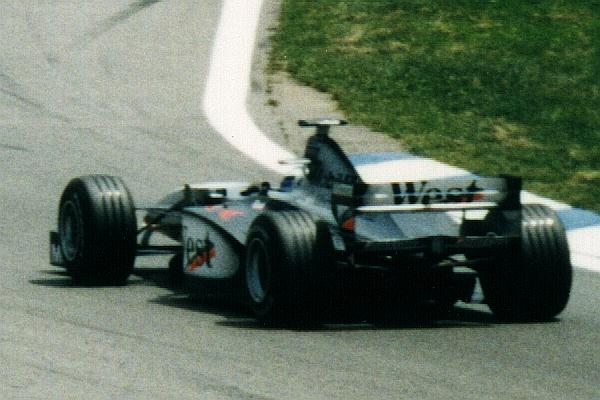 Mika Häkkinen in the McLaren MP4/13-Mercedes during 1998 Spanish Grand Prix. Camera: Canon EOS Rebel SX Film: Kodak ASA 1000